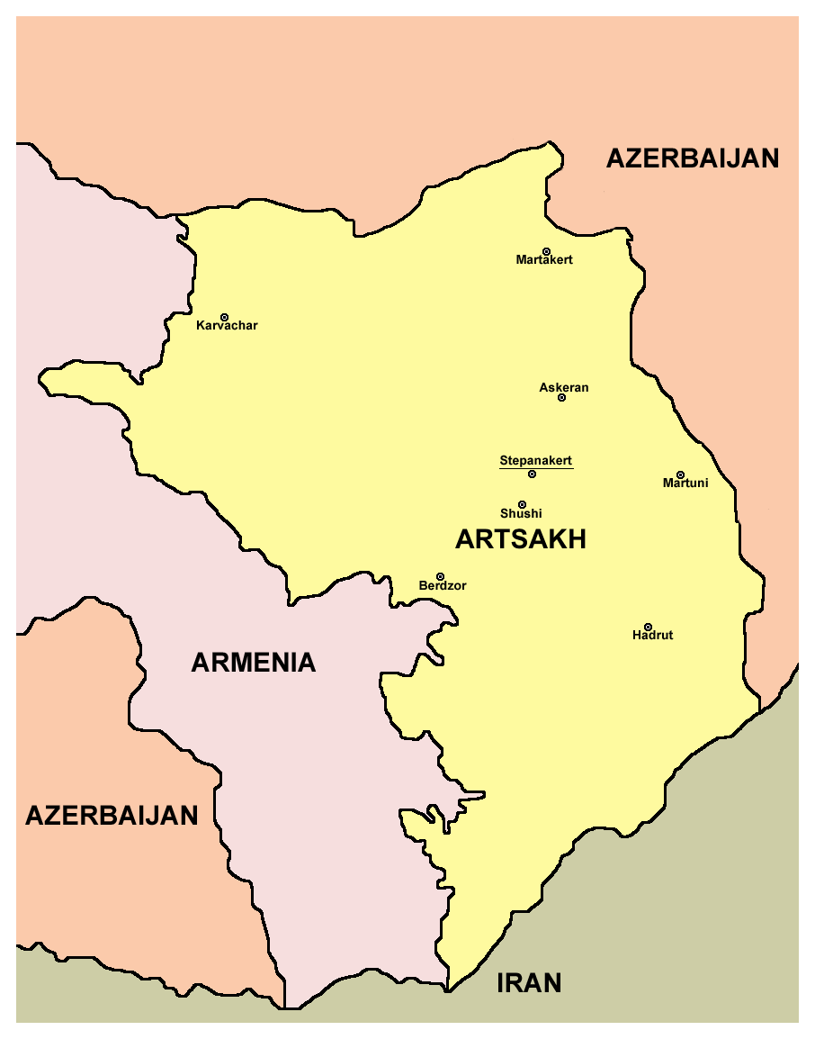 Republic of Artsakh without territory controlled by Az